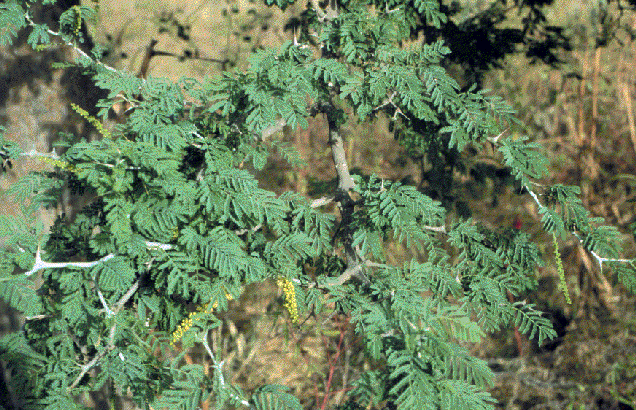 Faidherbia albida branch